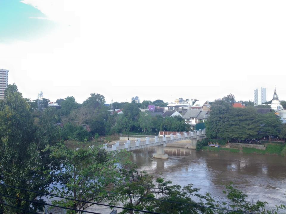 สะพานจันทร์สม